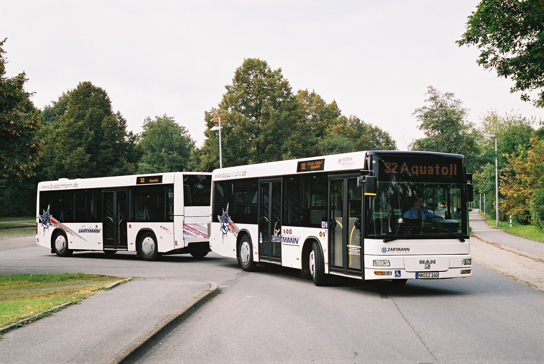 MIDI TRAIN - MAN-Göppel NM 2x3.3 bus (reg. HN-EZ 160) with Göppel G10 bus trailer in Neckarsulm, Germany. Göppel body bus with MAN A35 chassis. E. Zartmann GmbH & Co. KG - Stadtbus Neckarsulm from Neckarsulm operator.